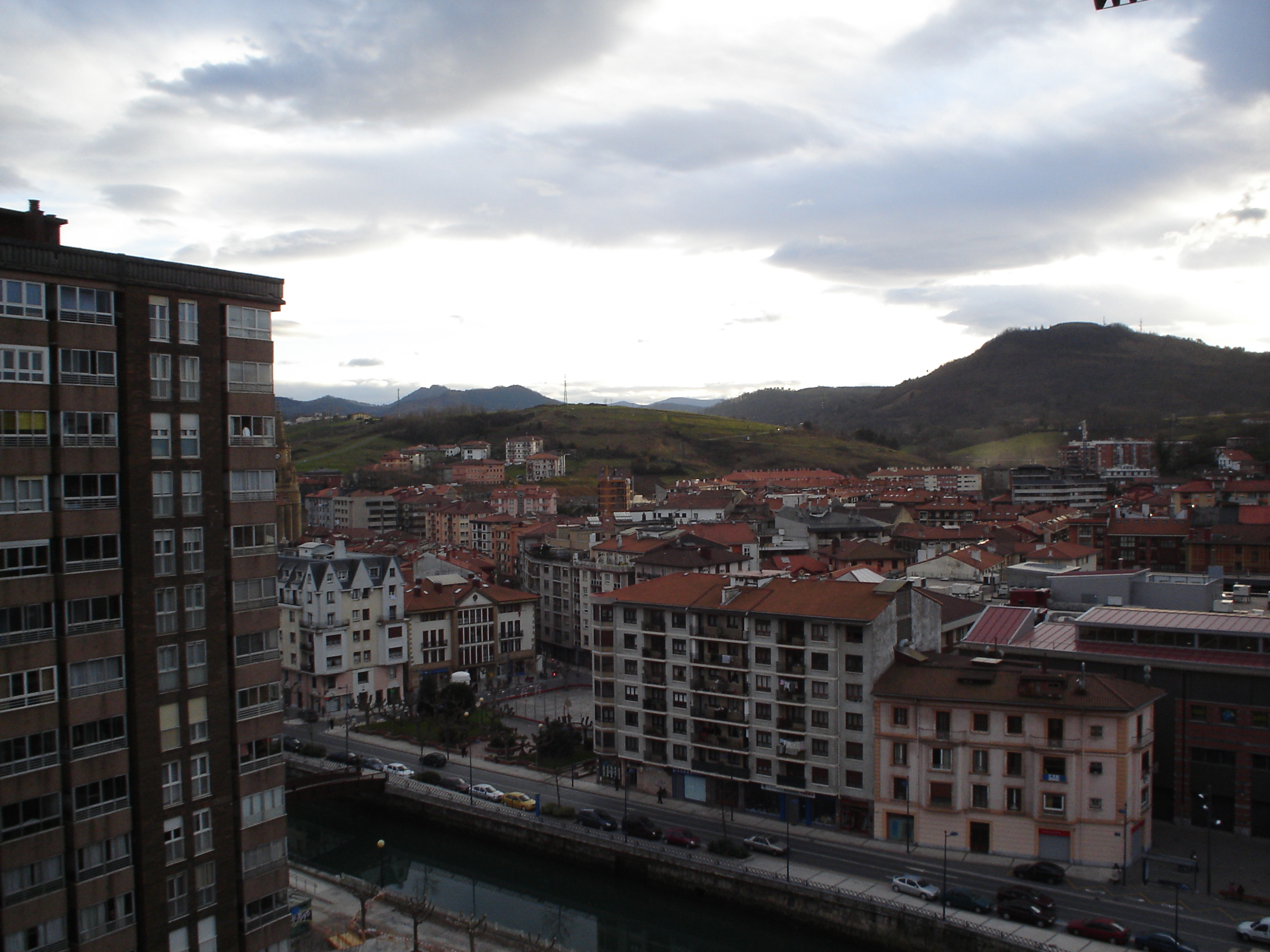 Orereta city center